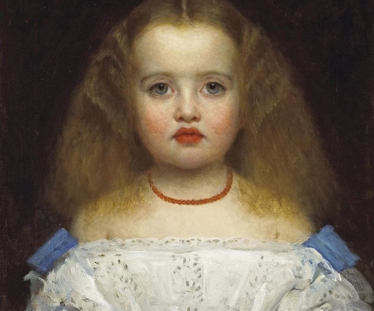 Liéven De Winne - Portrait of a young girl with a coral necklace.